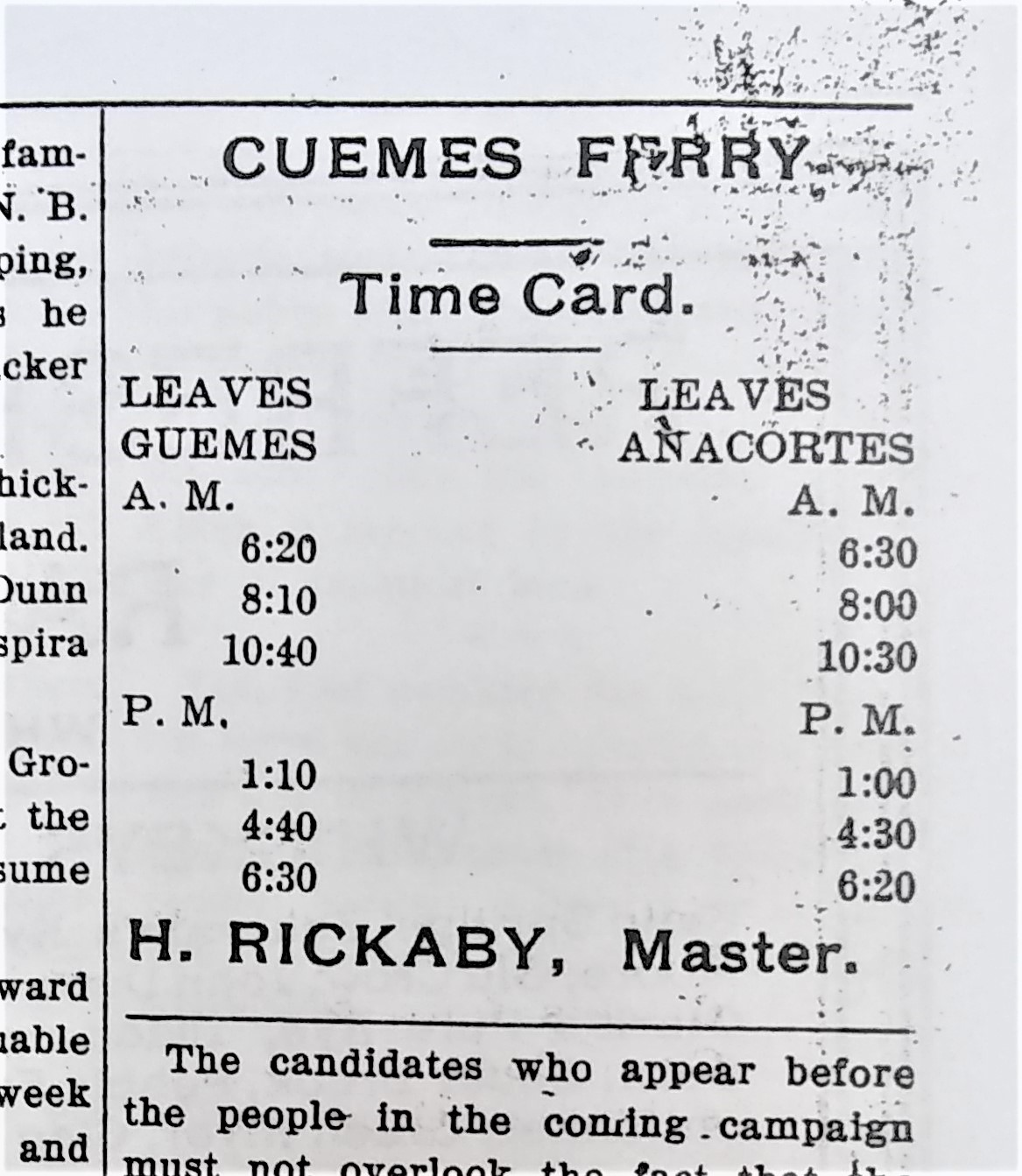 Guemes ferry schedule published in 1912 in the Guemes Tillikum newspaper.